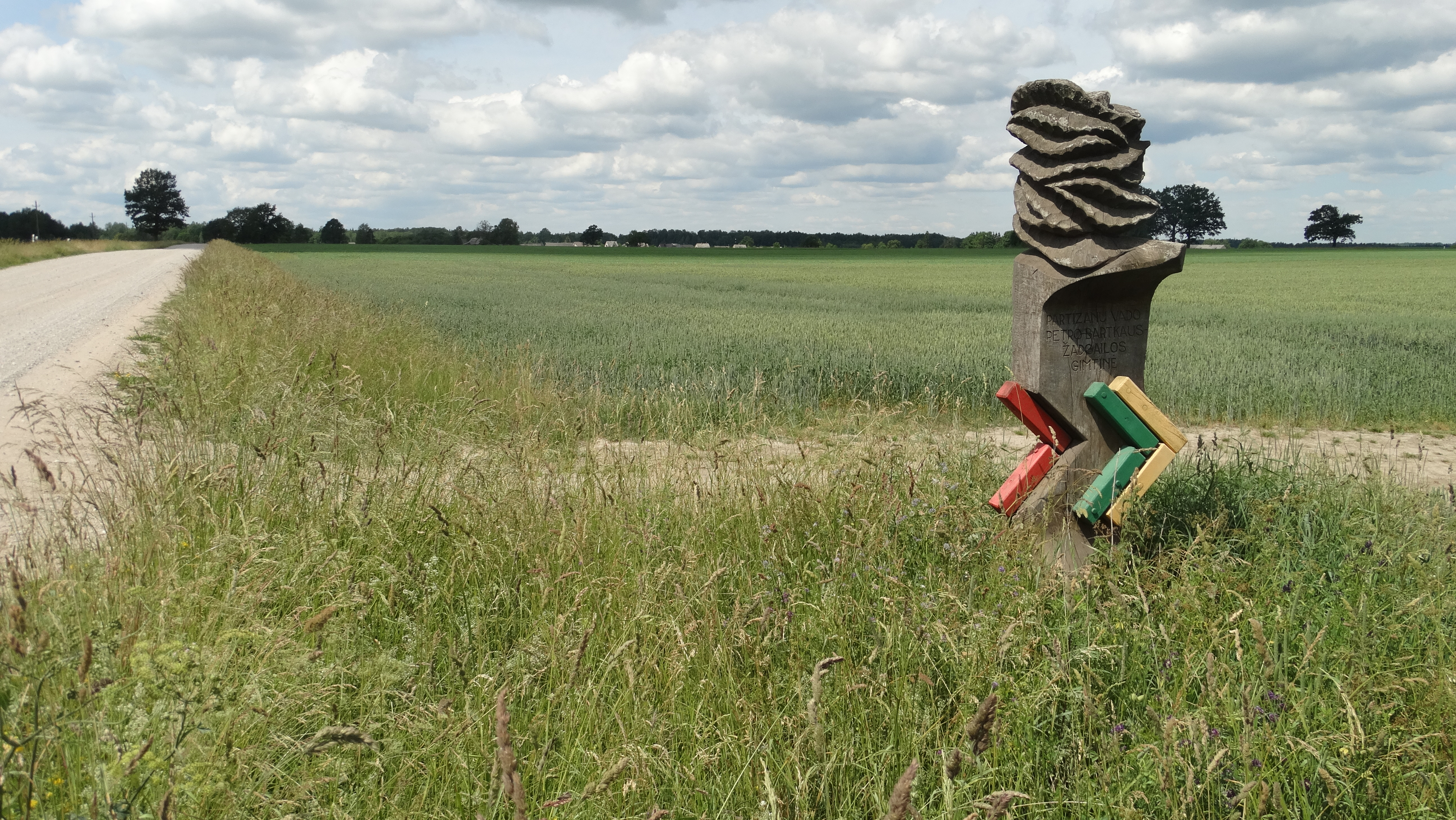 Pakapurnis, Raseiniai, Lithuania